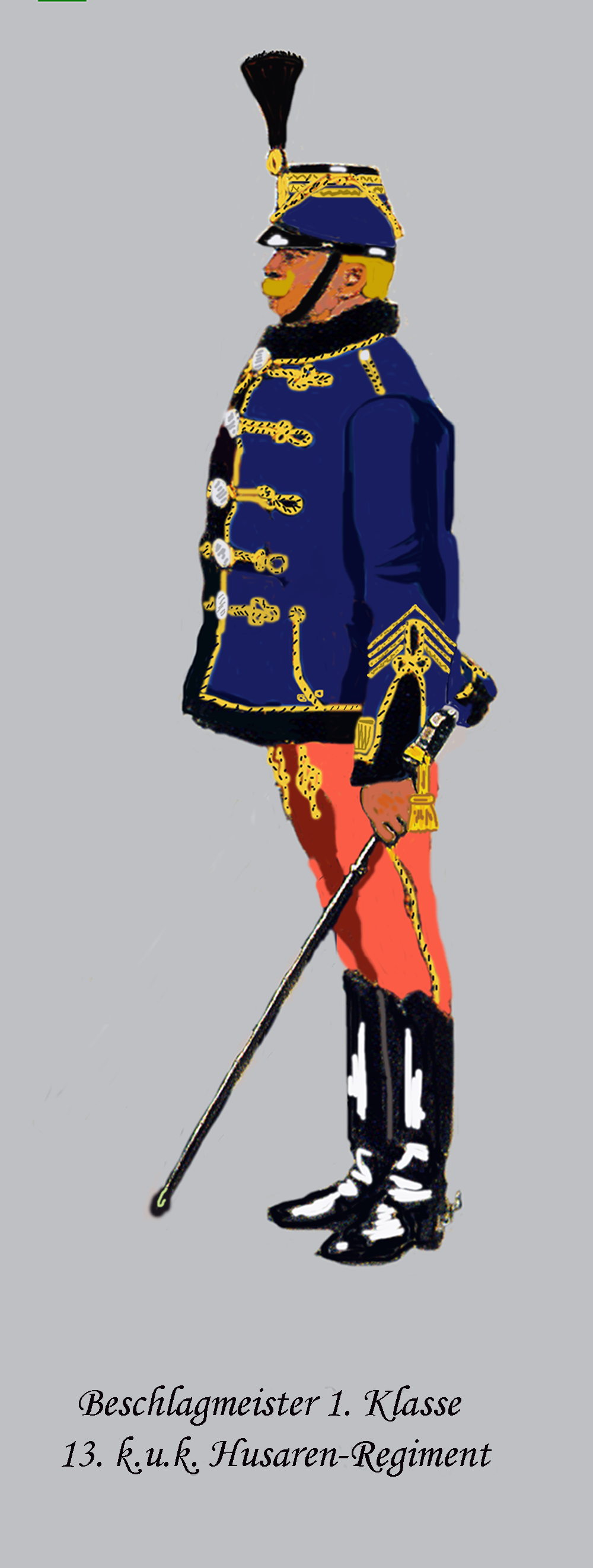 Uniform of the Austro-Hungarian armed forces (k.u.k.) 1868 to 1918, here Master-Blacksmith 1st class of the 13th Hussards Regiment– Uniform in line to the Adjustation´s instruction of 1912. Adjustation: Winter battle dress, in use until about 1916 Egalisation (corps colour): Attila = dark-blue | Olives = white | Shako-coating = dark-blue